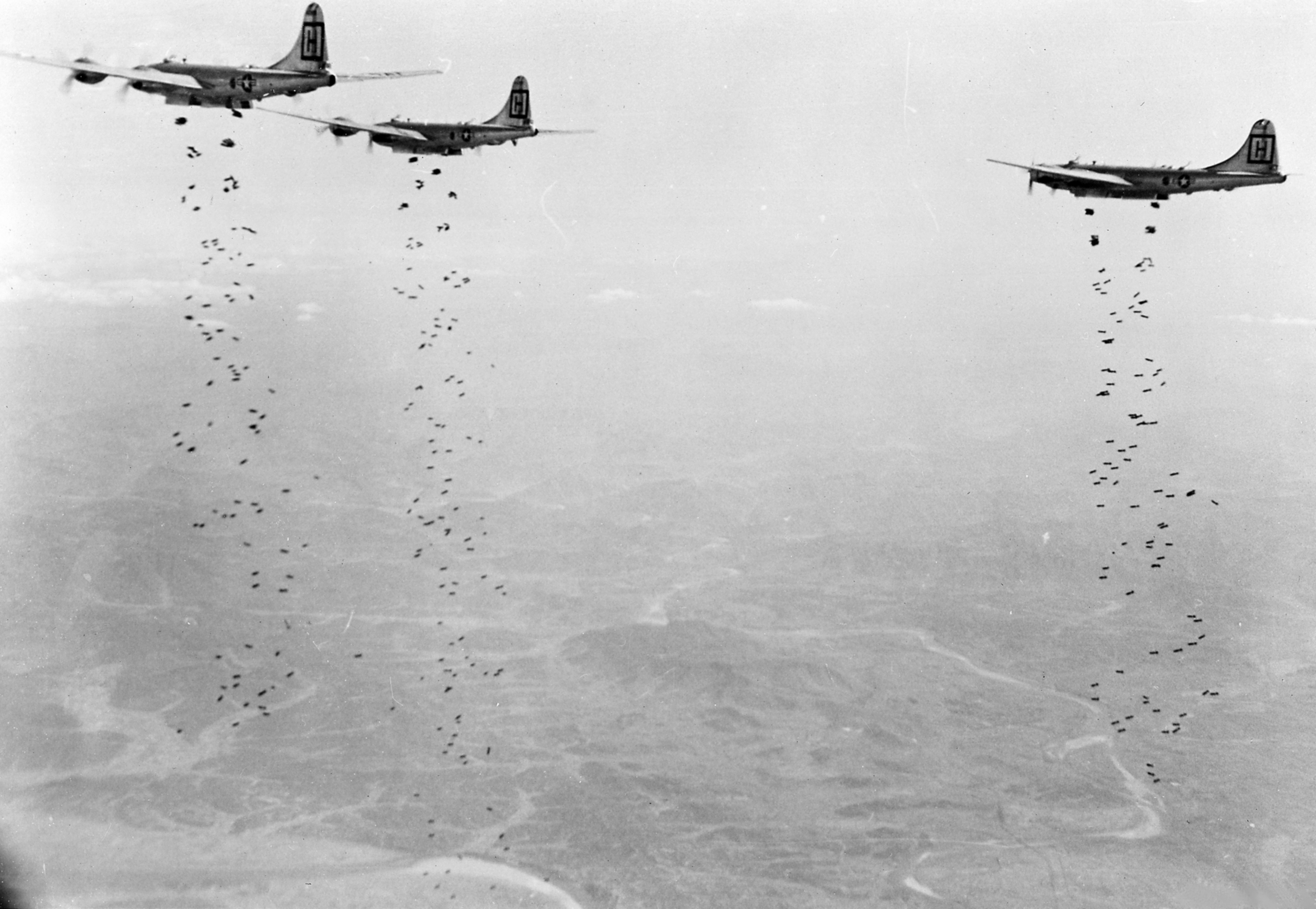 U.S. Air Force Boeing B-29 Superfortress bombers from the 98th Bomb Group (Medium) attacking a target in Korea in January 1951. Original caption: "Bomber Command planes of the U.S. Far East Air Forces rain tons of bombs on a strategic military target of the Chinese Communists in North Korea. As part of the stepped-up aerial offensive against the enemy, attacks such as this are staggering the Reds, thus helping UN ground forces to stem the Communist push down the center of the Korean peninsula. The planes blasting the Red hordes are B-29 "Superfort" medium bombers., ca. 01/1951"